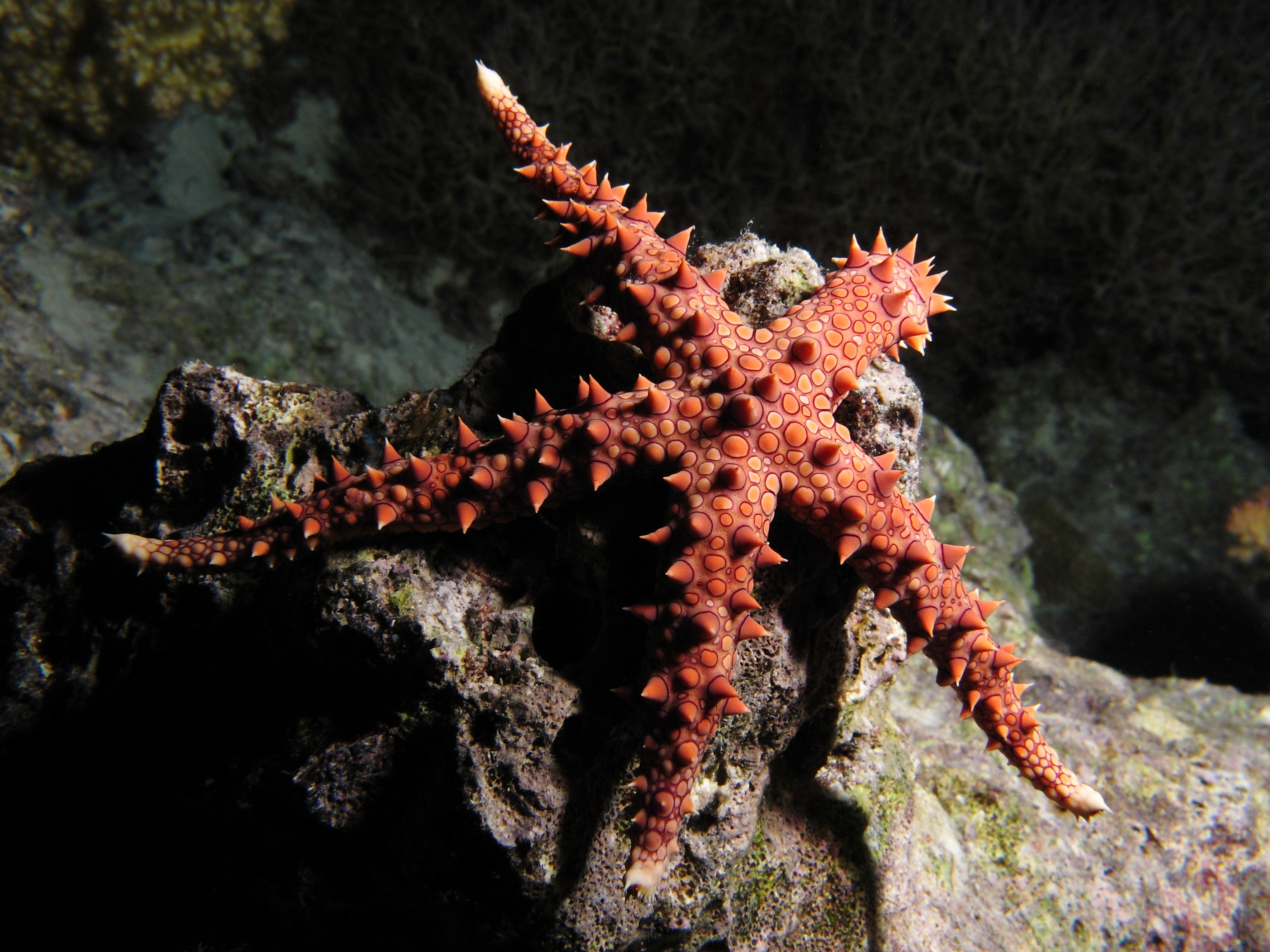 Egyptian sea star (Gomophia egyptiaca) at Shaab Angosh reef